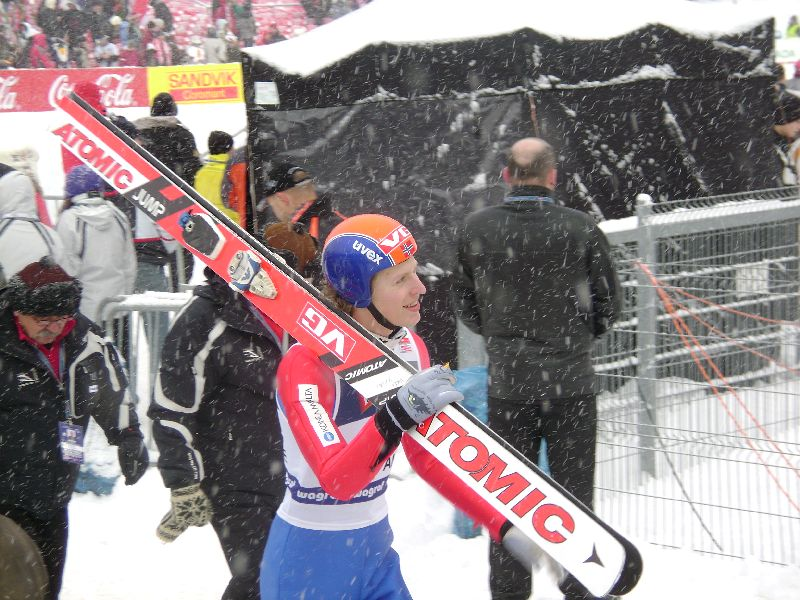 ski jumper Andreas Vilberg from Norway during the World Cup in Zakopane on 27-1-2008